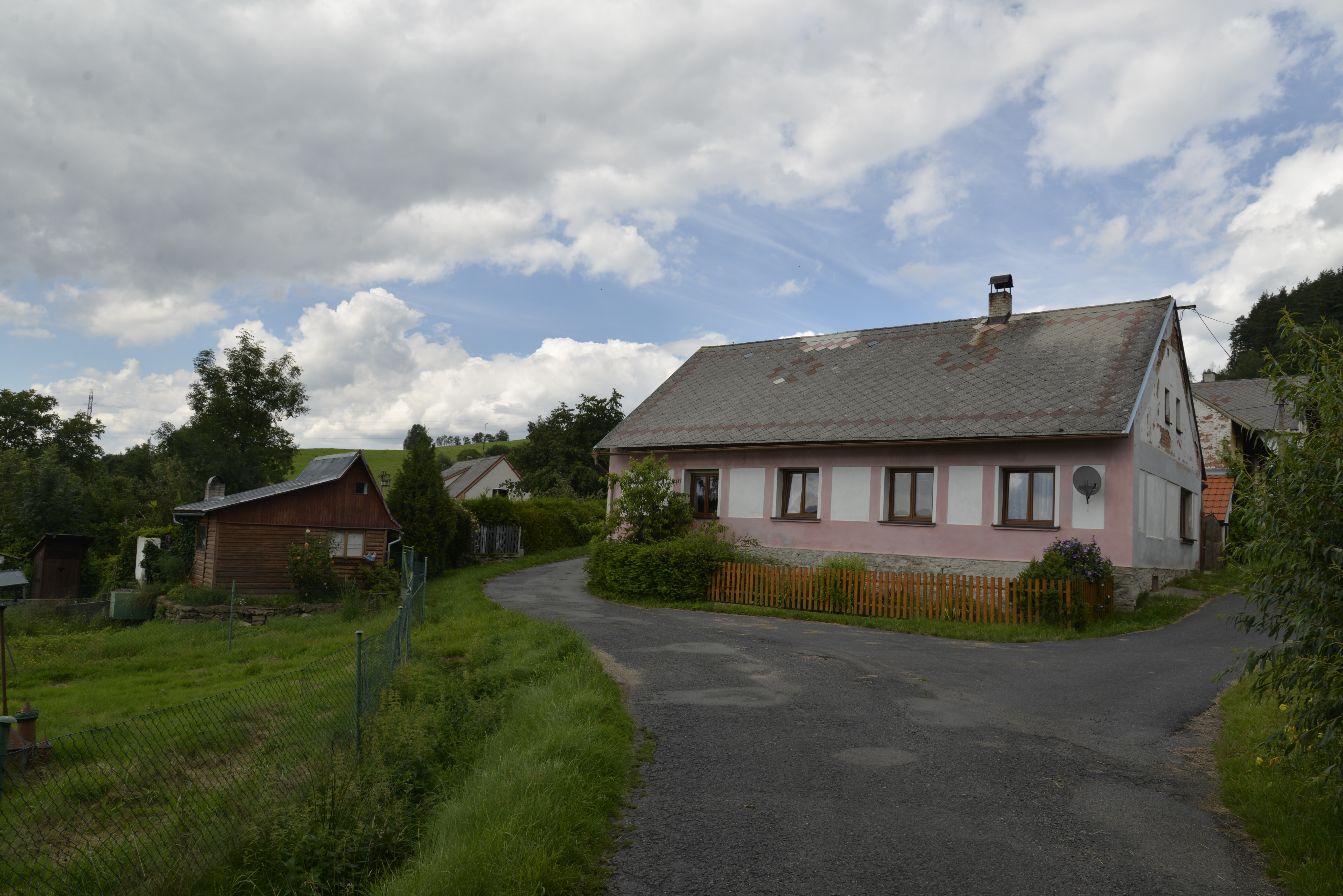 Lehom - small village, part of Strážov in Klatovy District